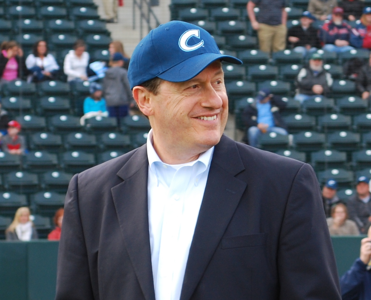 David J. Leland, Clippers